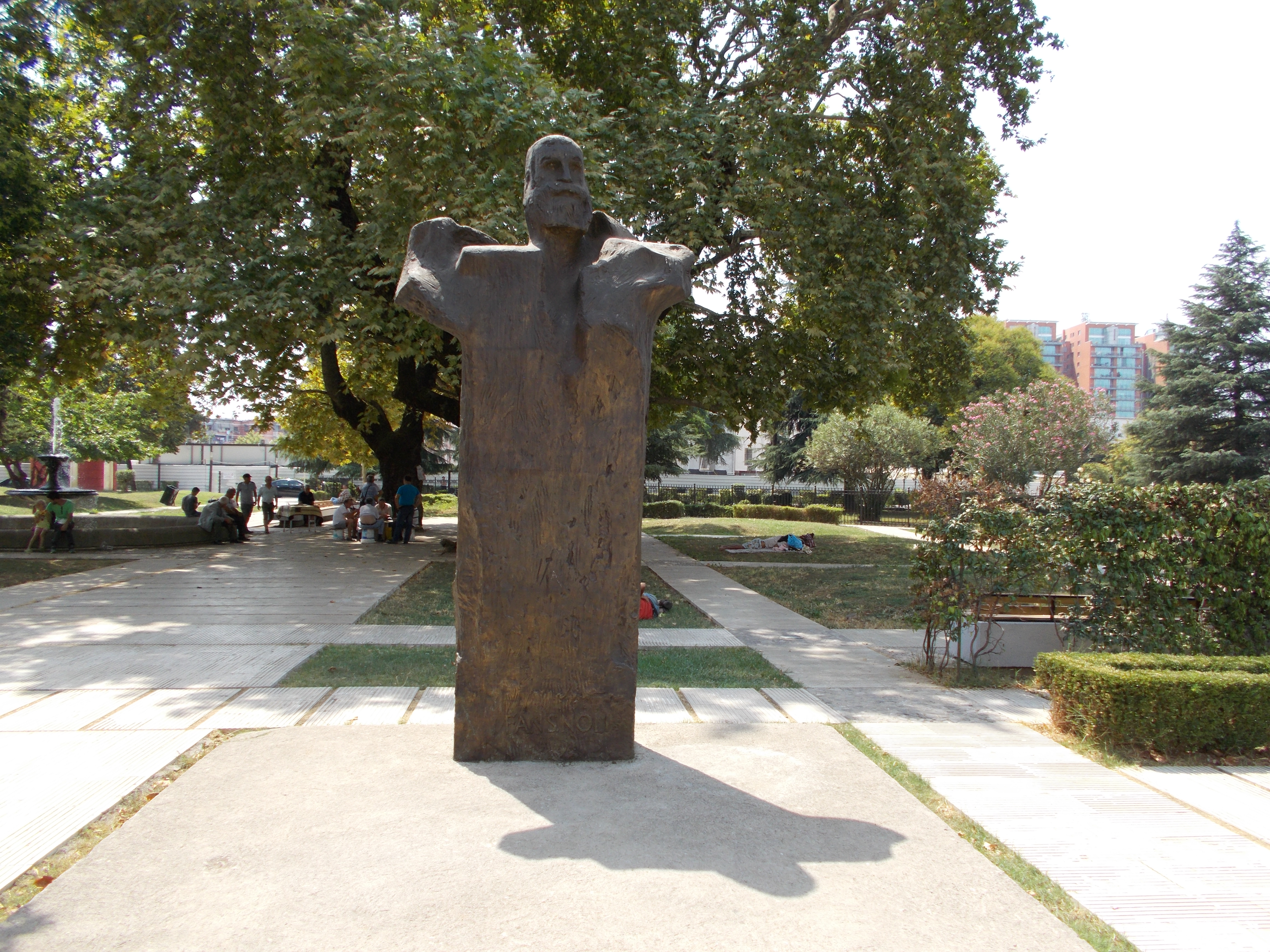 Bust of Fan Noli, Tirana